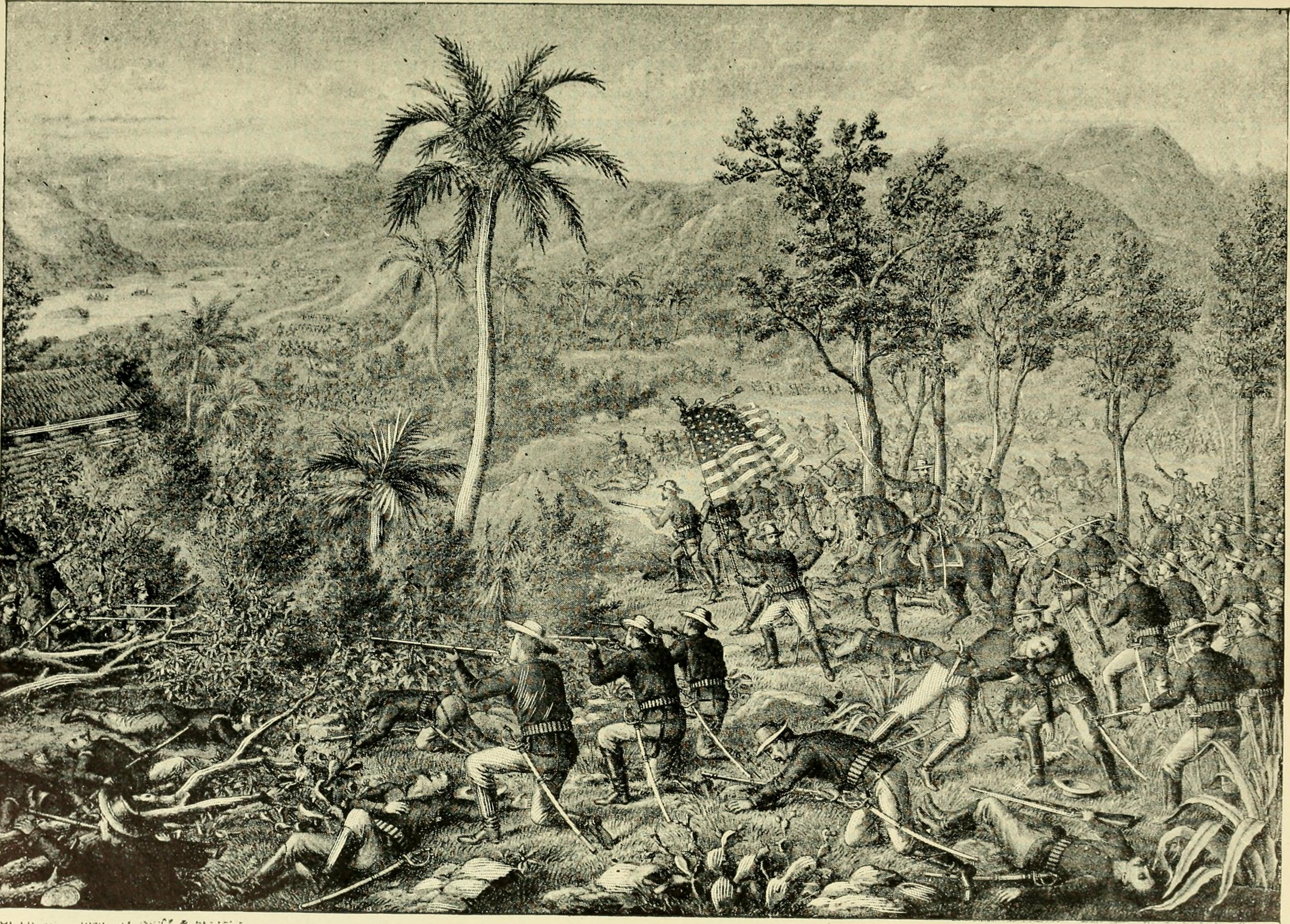 Battle of San Juan Hill - Near Santiago, Cuba, 1898 Title: The story of our nation, from the earliest discoveries to the present time ... together with a graphic account of Porto Rico, Cuba, Hawaii and the Philippine islands .. Year: 1902 (1900s) Authors: Stratton, Ella (Hines), Mrs. (from old catalog) Subjects: Publisher: Philadelphia, National publishing co Text Appearing Before Image: ' Text Appearing After Image: '